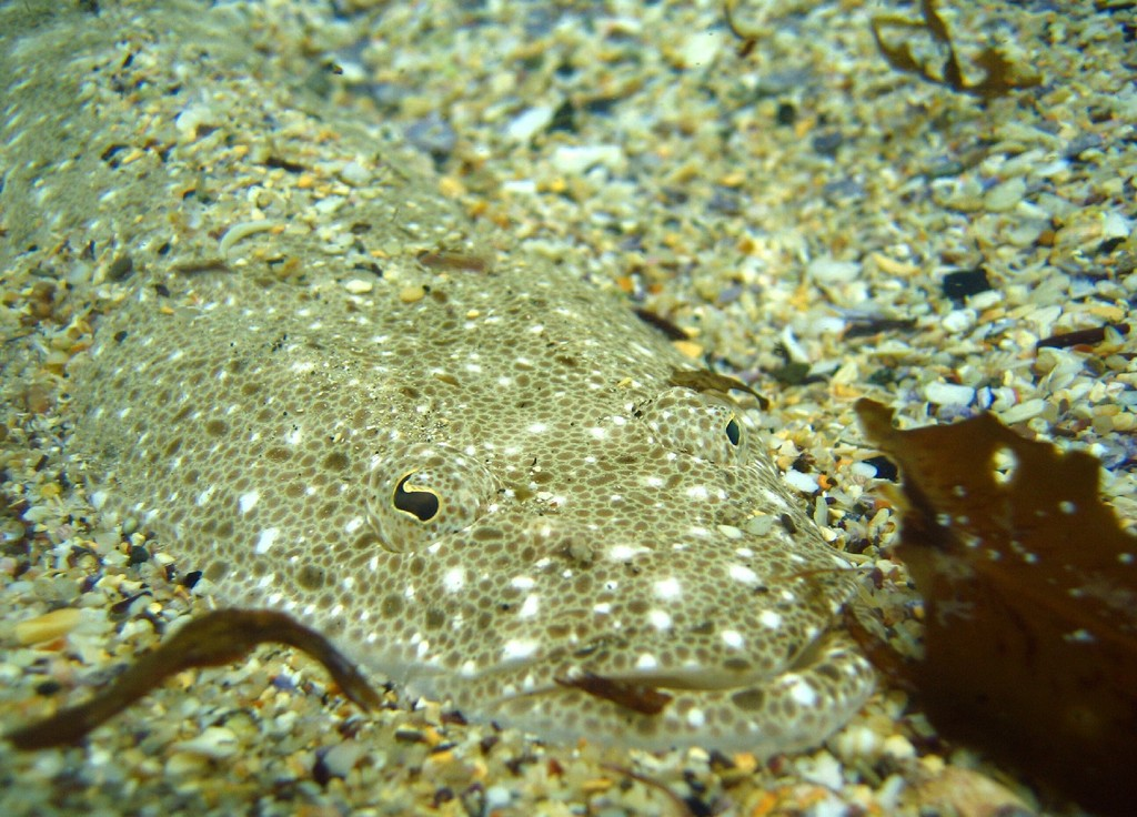 Portrait of a Sand Flathead (Platycephalus bassensis). Fairy Bower, Manly, NSW